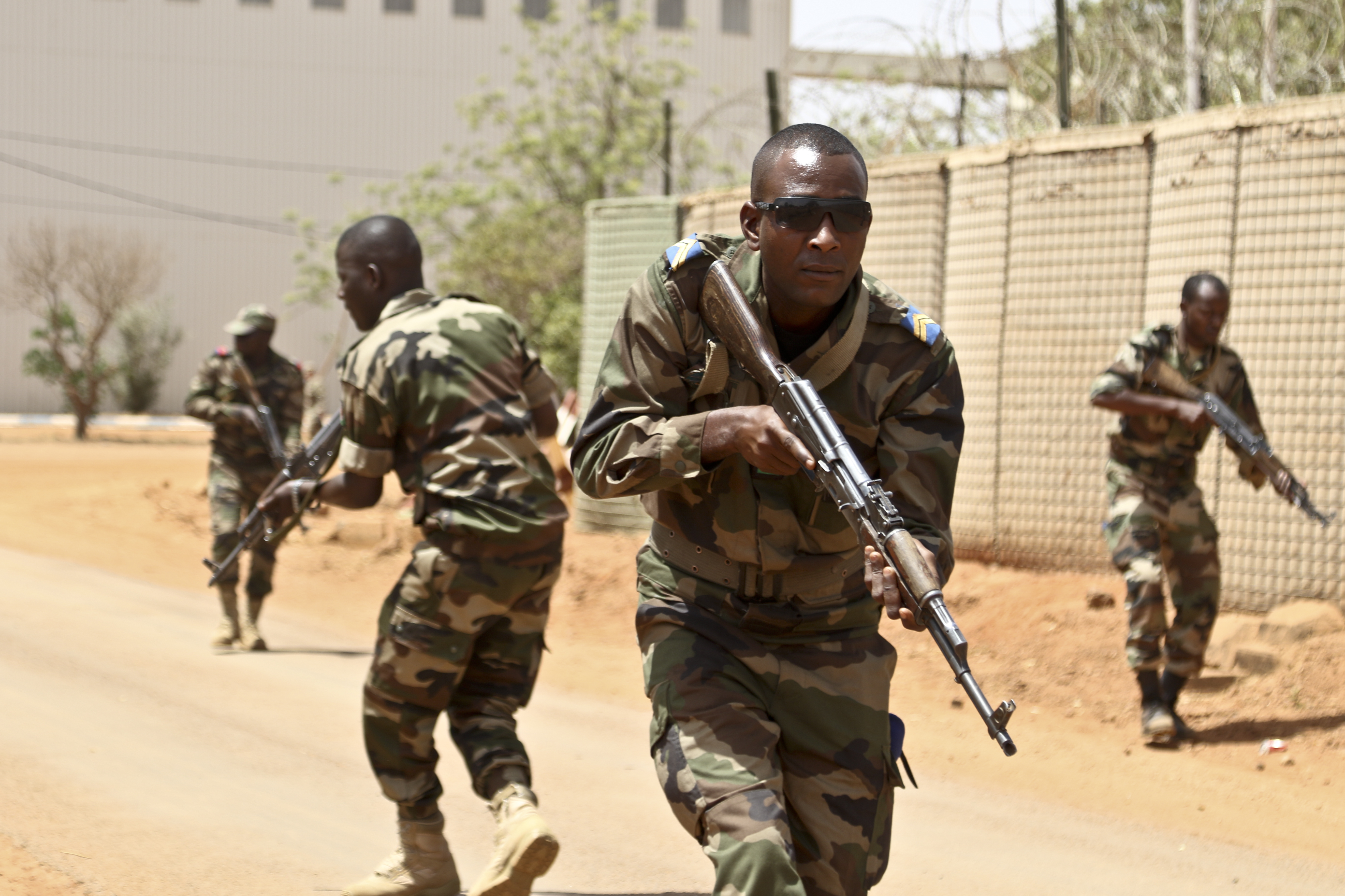 Nigerien soldiers react to contact as part of tactical combat casualty care training during of Flintlock 2018 in Niamey, Niger, April 19, 2018. The soldiers were trained by a team of the U.S. Air Force Special Operations Command (AFSOC) Global Health Engagement (GHE) Advisors. This team comprised of Active Duty, Guard and Reserve Airmen embracing the concept of Total Force Integration. (U.S. Army photo by Sgt. Heather Doppke/79th Theater Sustainment Command)